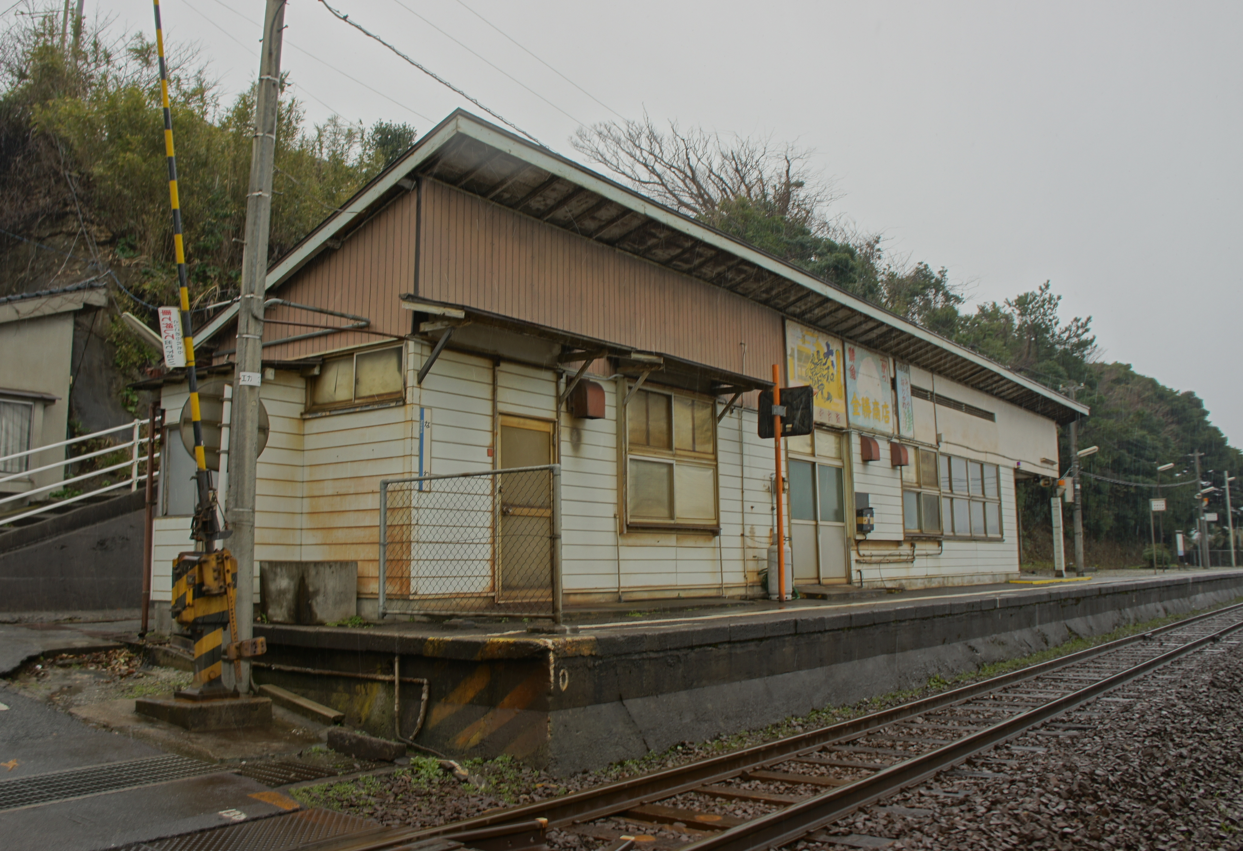 Nawa Station building (Daisen, Tottori Prefecture, Japan)